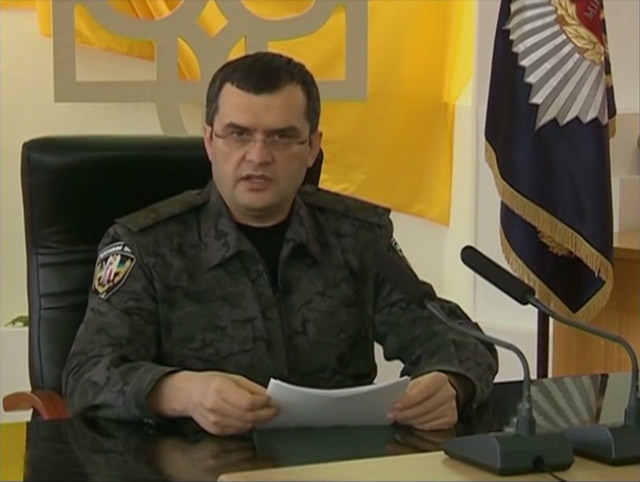 Minister of the Interior of Ukraine Vitaliy Zakharchenko in his last TV speech announces the authorisation to use firearms